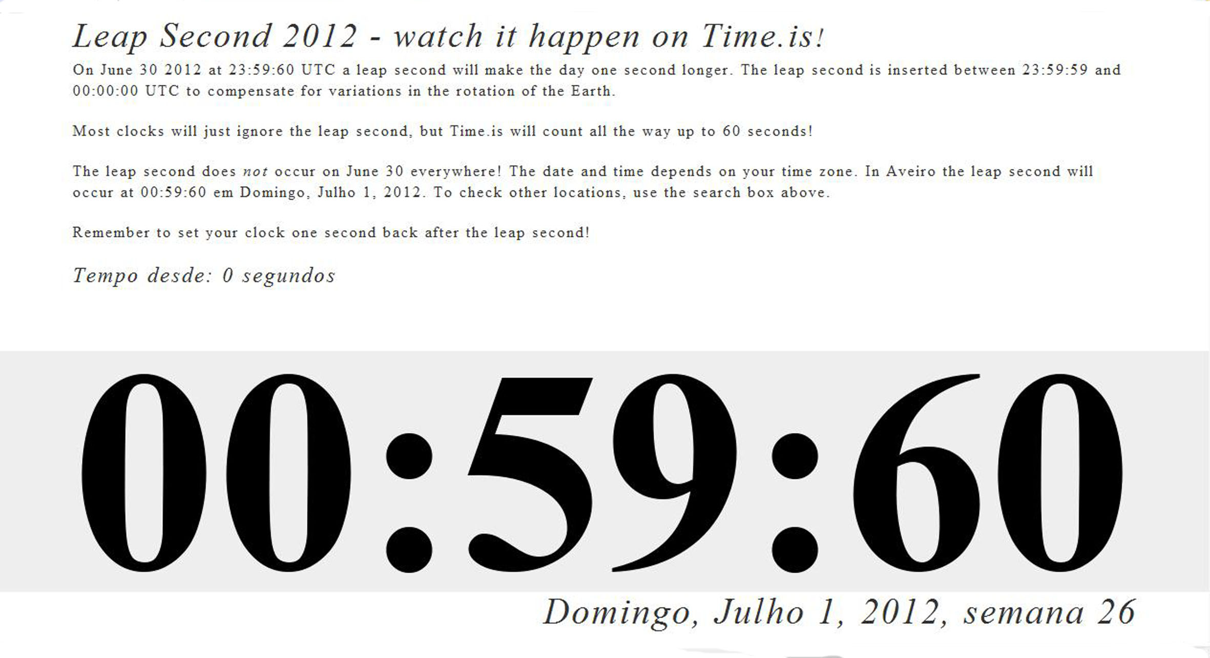 Leap second of 2012 as seen from Portugal